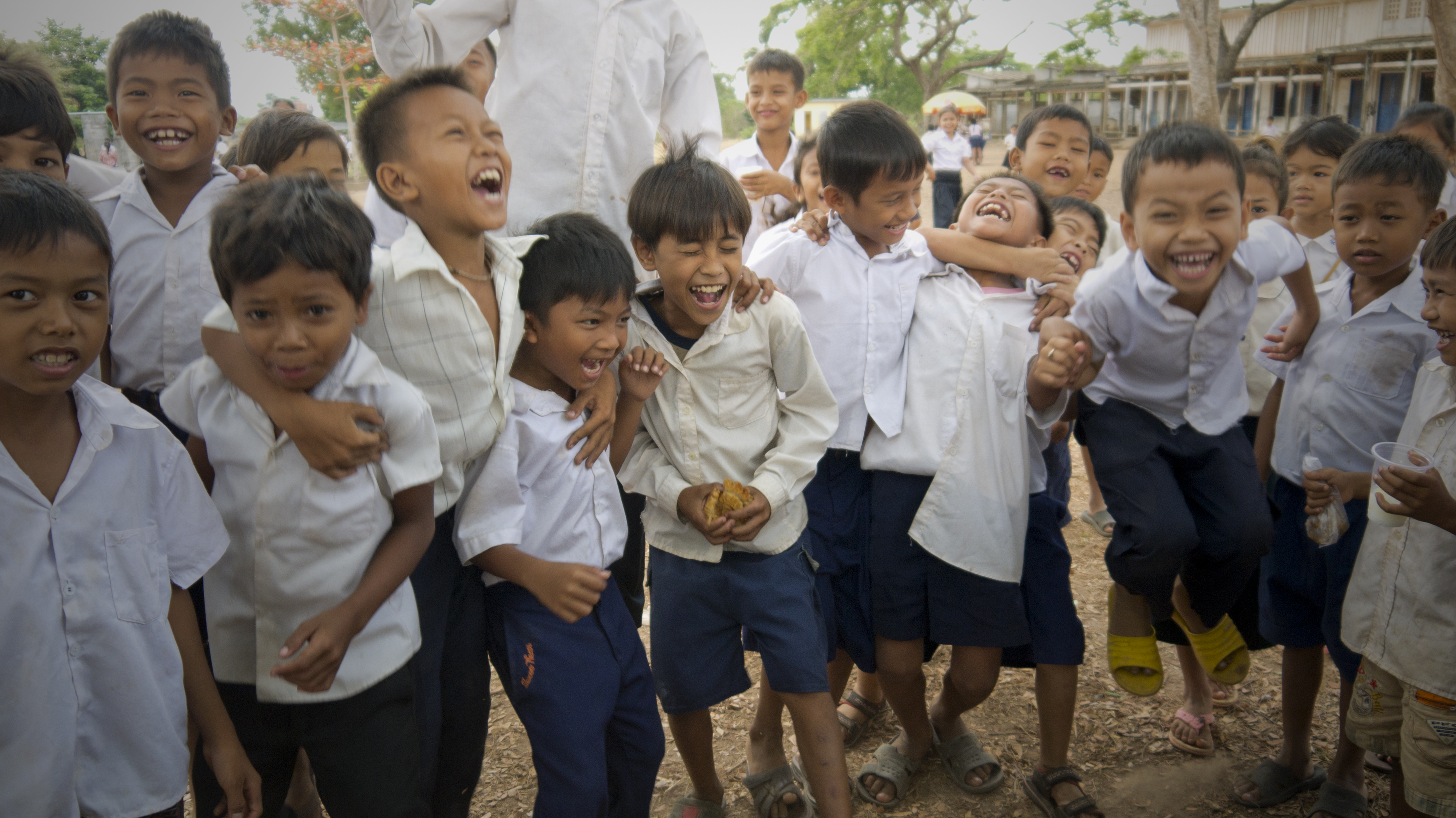 Taken at a primary school in Kampot province Cambodia. I walked out to the car to rest, the heat was almost unbearable at that time of the day. Children started to gather around on the school grounds so I handed them my camera to try it out. I showed them a way to make pictures more interesting by all jumping at the same time. They added their own extra bit of fun with screams and smiles. This is what became of the experiment. They had a great time seeing the photographs.